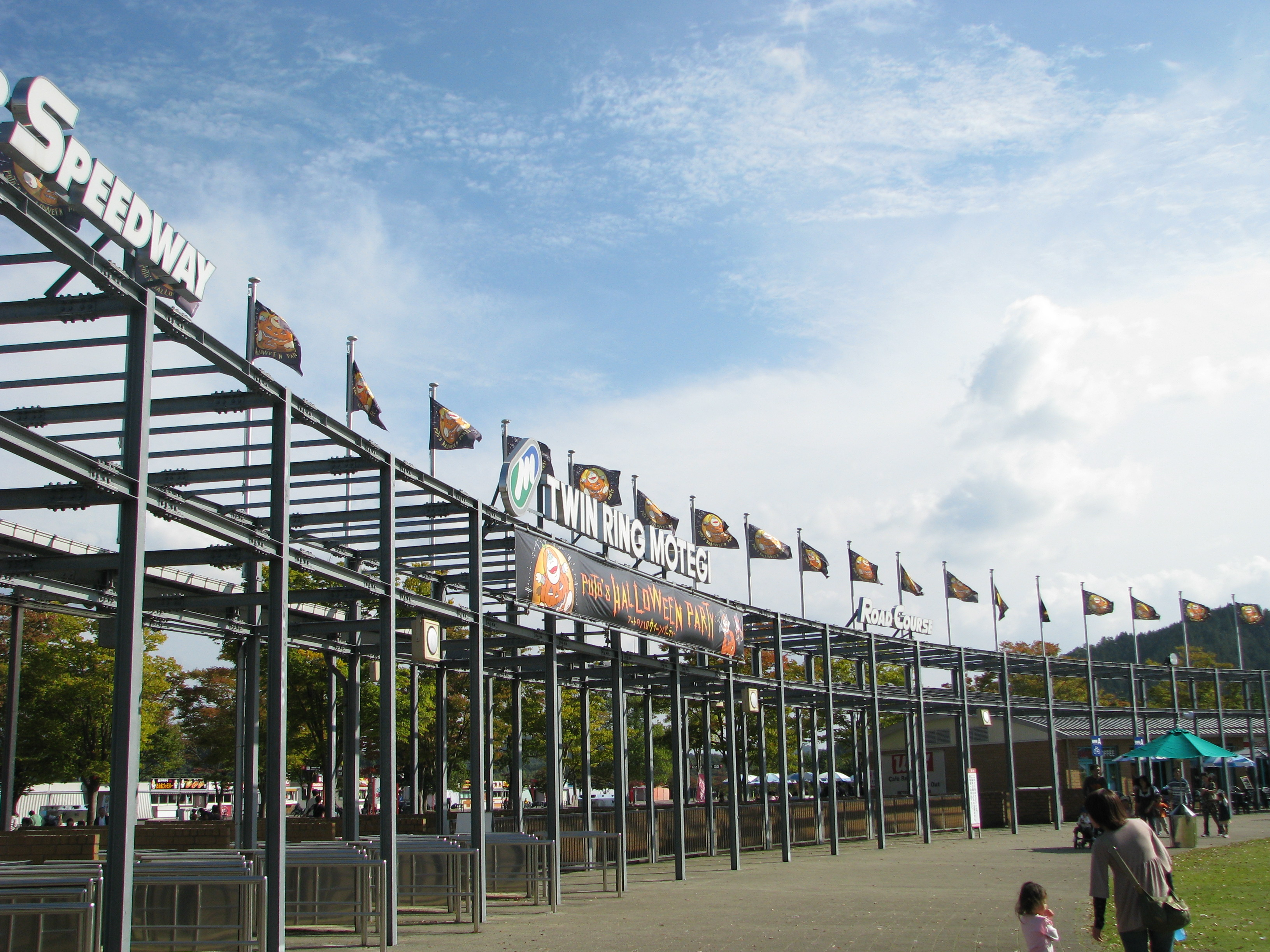 Twin Ring Motegi, Motegi T, Tochigi P.